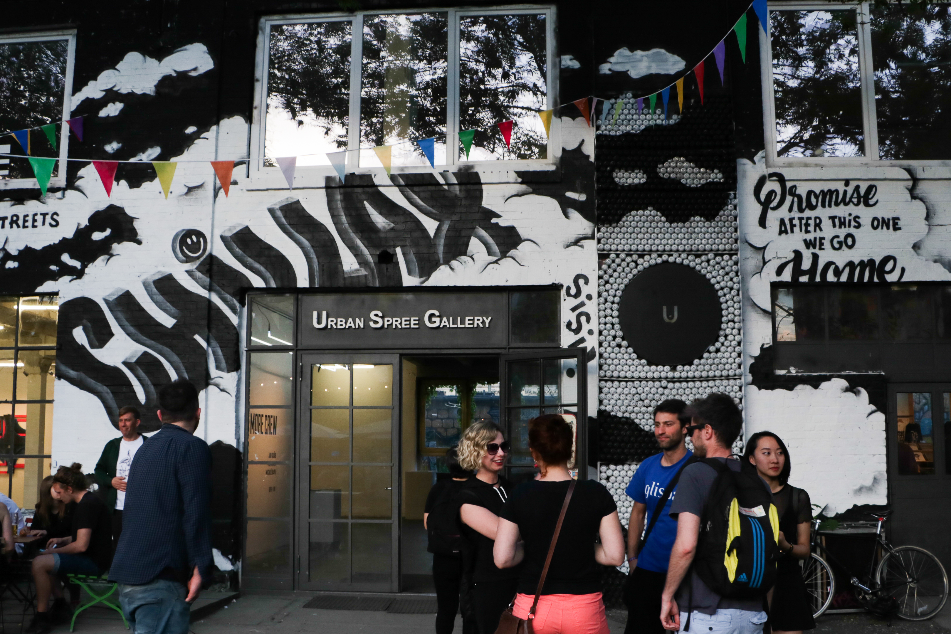 Entrance to the Urban Spree Gallery